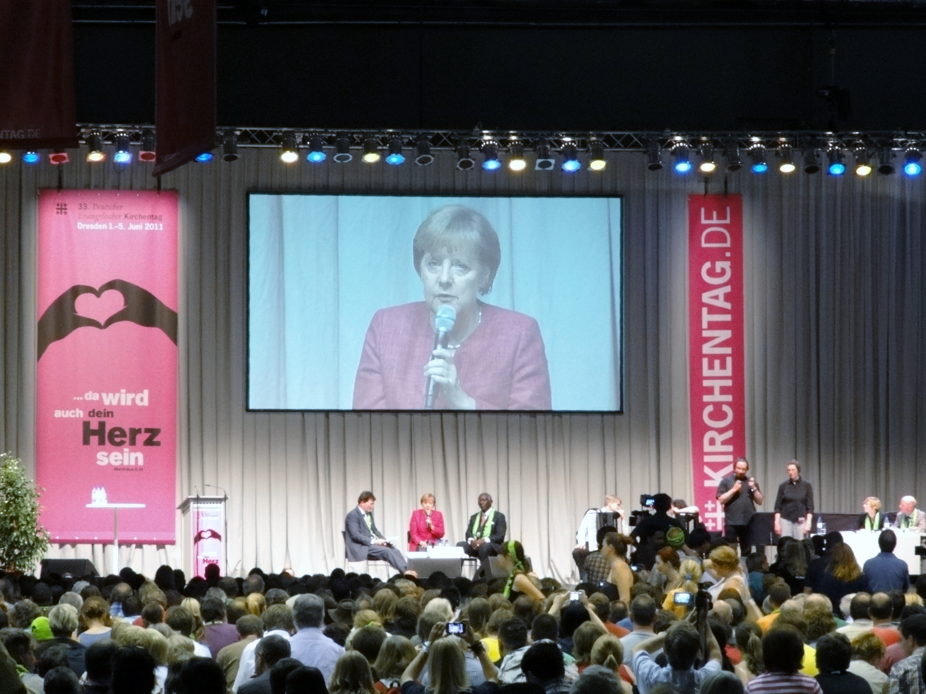 The 33rd church congress in Dresden.